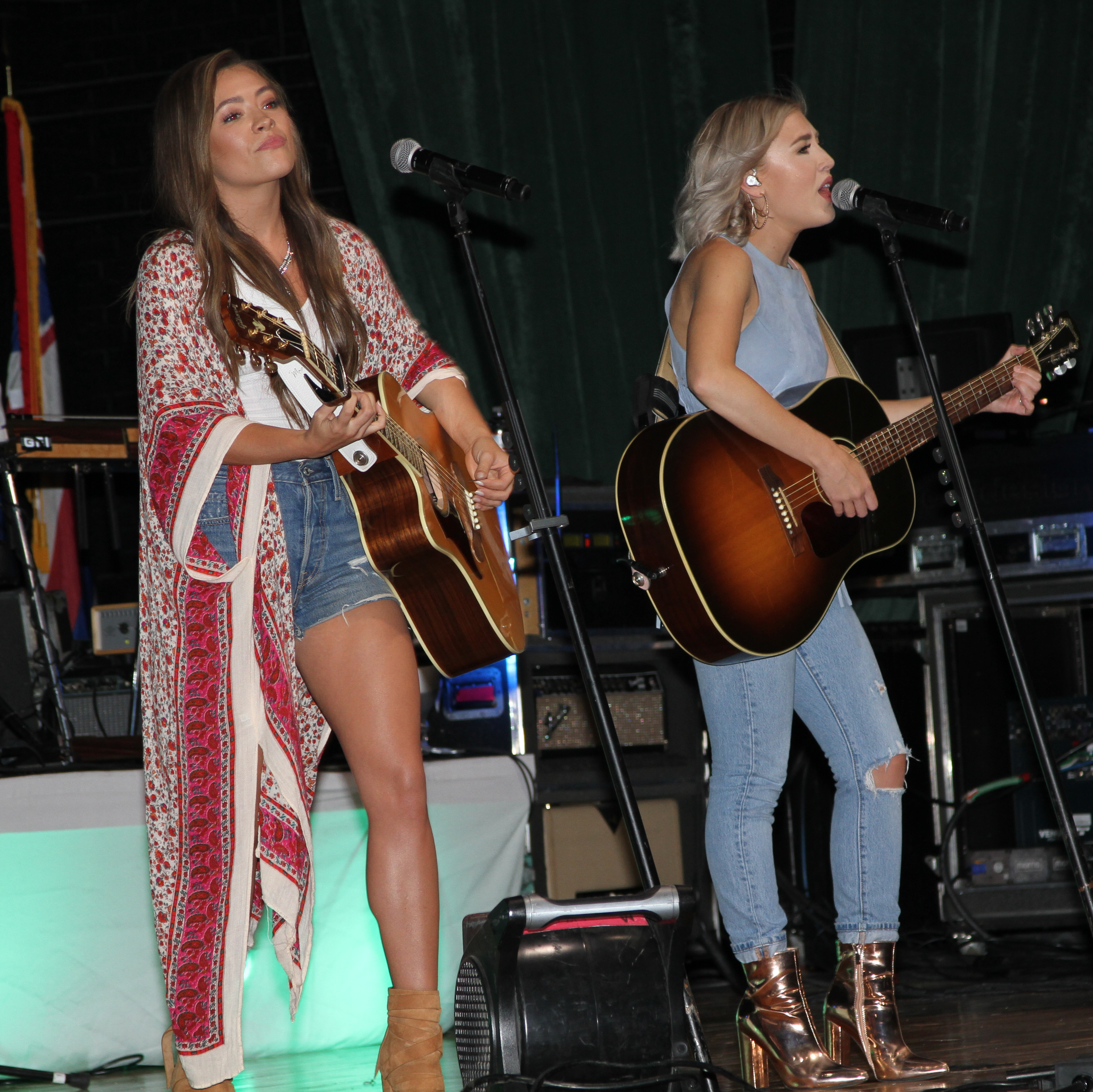 Country duo Maddie & Tae brought down the house with special guests Ruthie Collins and Natalie Stovall and opener folk singer Lakin during the Women Rock the Forts Tour at the APG post theater. Army Entertainment and APG's Morale, Welfare and Recreation hosted the event. Photos by Yvonne Johnson, APG News